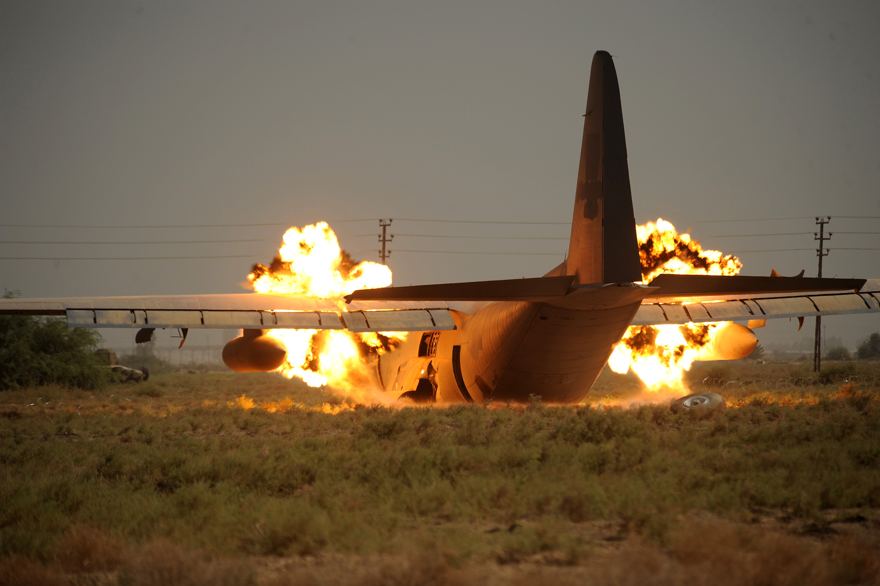 BAGHDAD, Iraq -- Explosive Ordinance Disposal personnel from the 447th Expeditionary Civil Engineer Squadron at Sather Air Base, Iraq, detonate explosives to detach the wings from the body of a C-130 Hercules here July 7. The EOD team is using a series of controlled detonations designed to divide the airplane into smaller pieces so it can be easily moved. The C-130 made an emergency landing in a field north of Baghdad International Airport shortly after take-off June 27. (U.S. Air Force photo/Tech. Sgt. Jeffrey Allen)